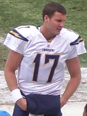 Philip Rivers on the sideline of the 2008 Chargers-Chiefs game at Arrowhead Stadium.